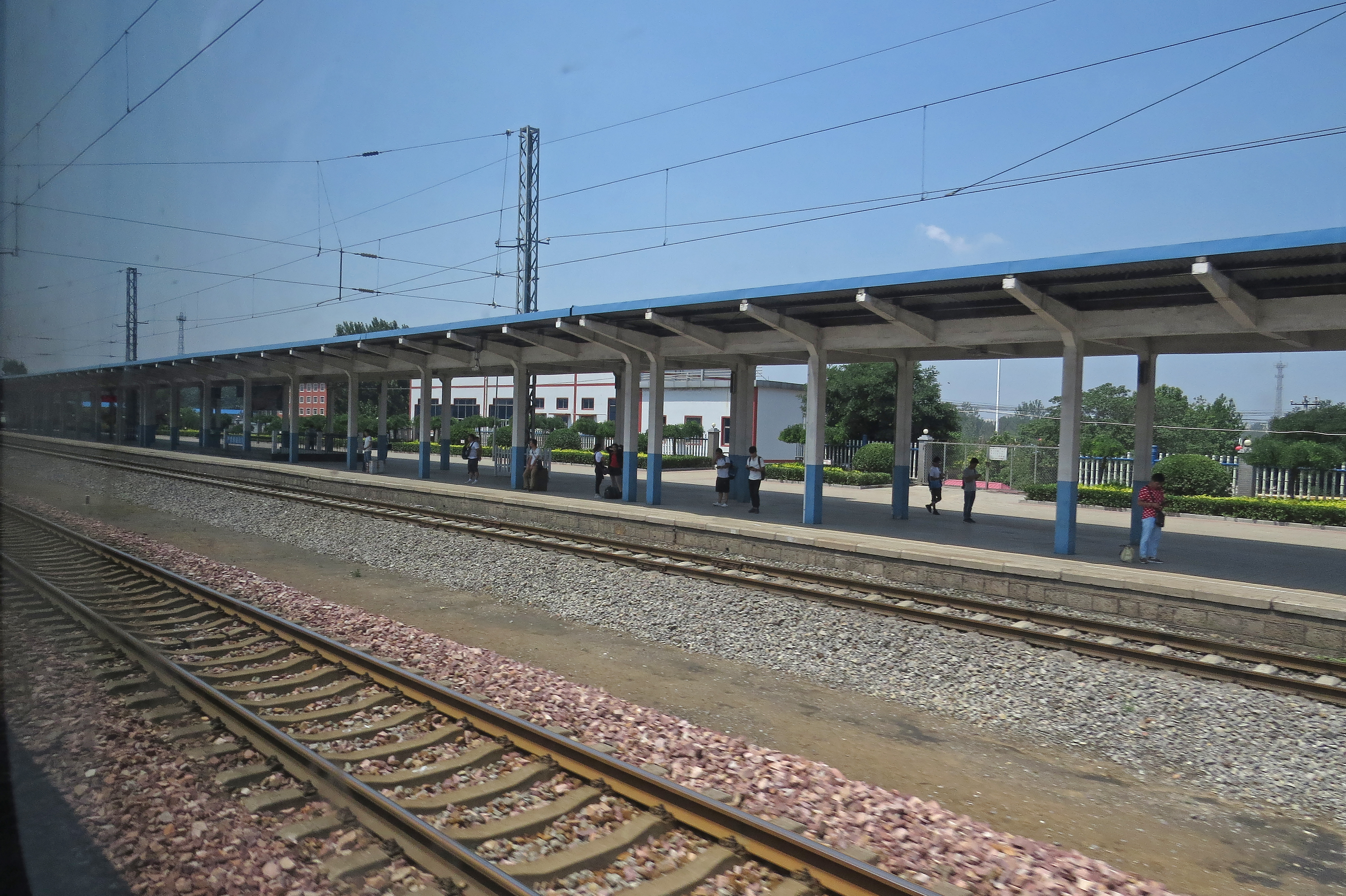 This is Shenzhou instead of Shenzhen. Some passengers, in a hurry, may accidentally buy tickets from this station, and... Does "深州" and "深圳" really resemble each other?